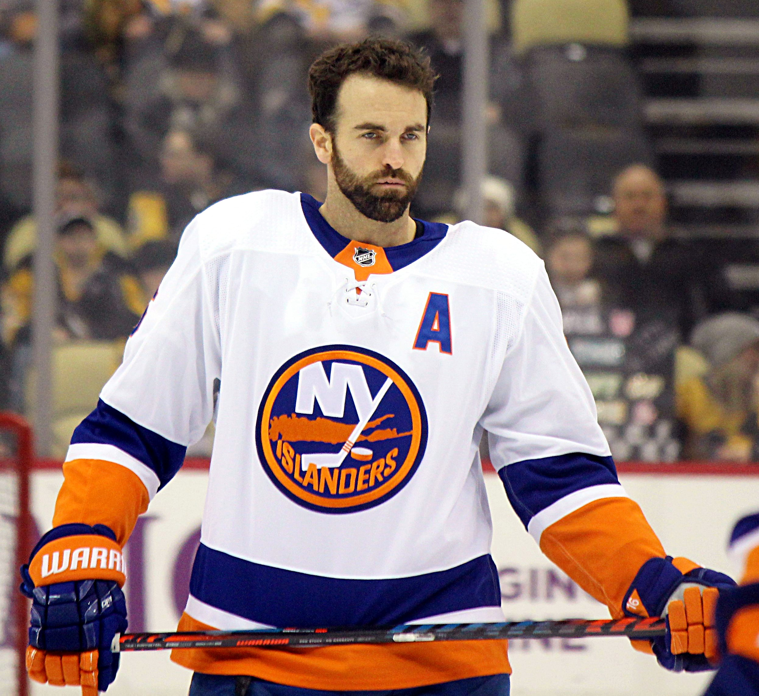 New Yorks Islanders forward Andrew Ladd during a game against the Pittsburgh Penguins at PPG Paints Arena in Pittsburgh, PA. Saturday, March 3, 2018.